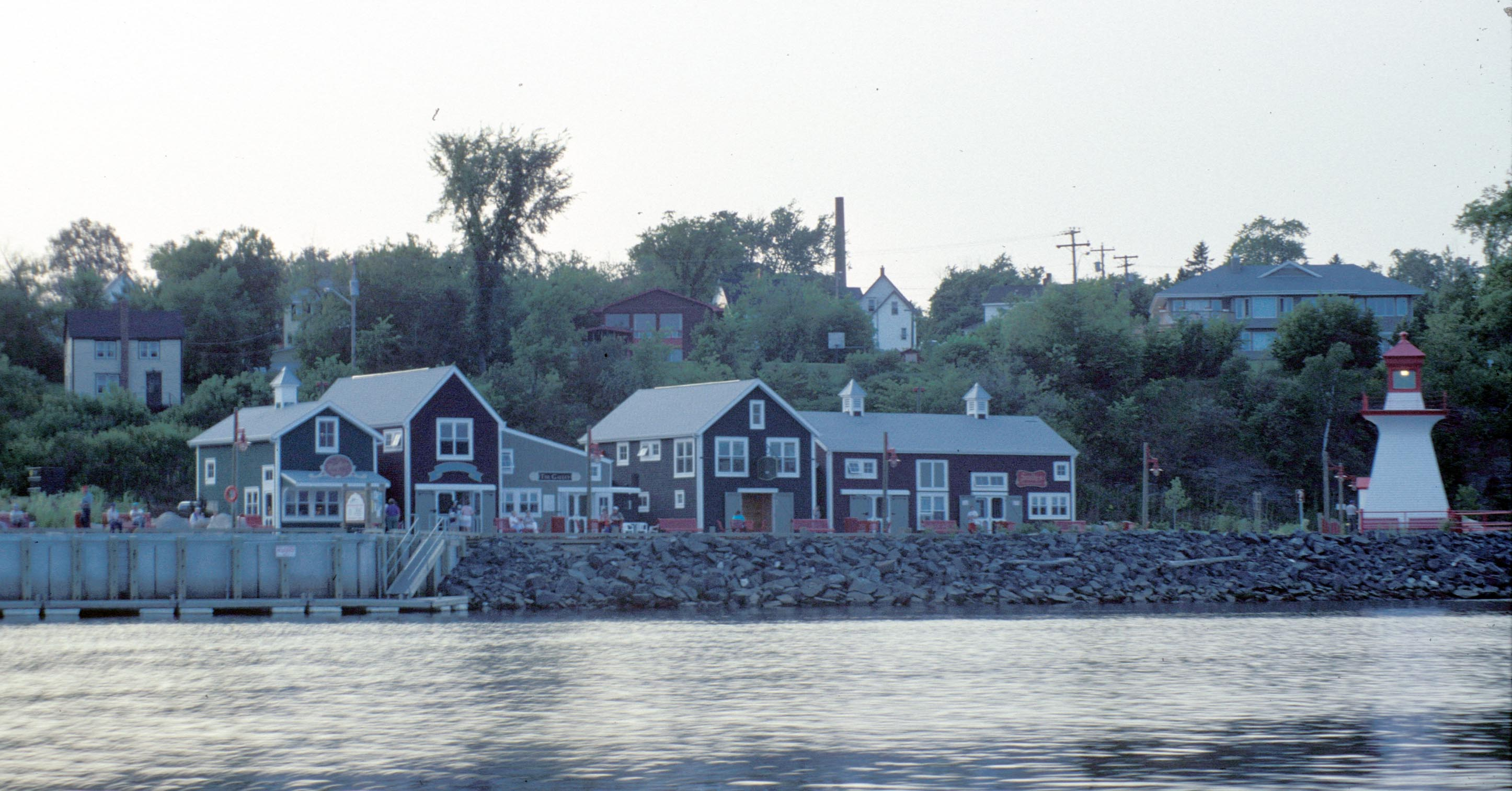 Ritchie Wharf, Newcastle, Miramichi, New Brunswick (IR Walker 1993)